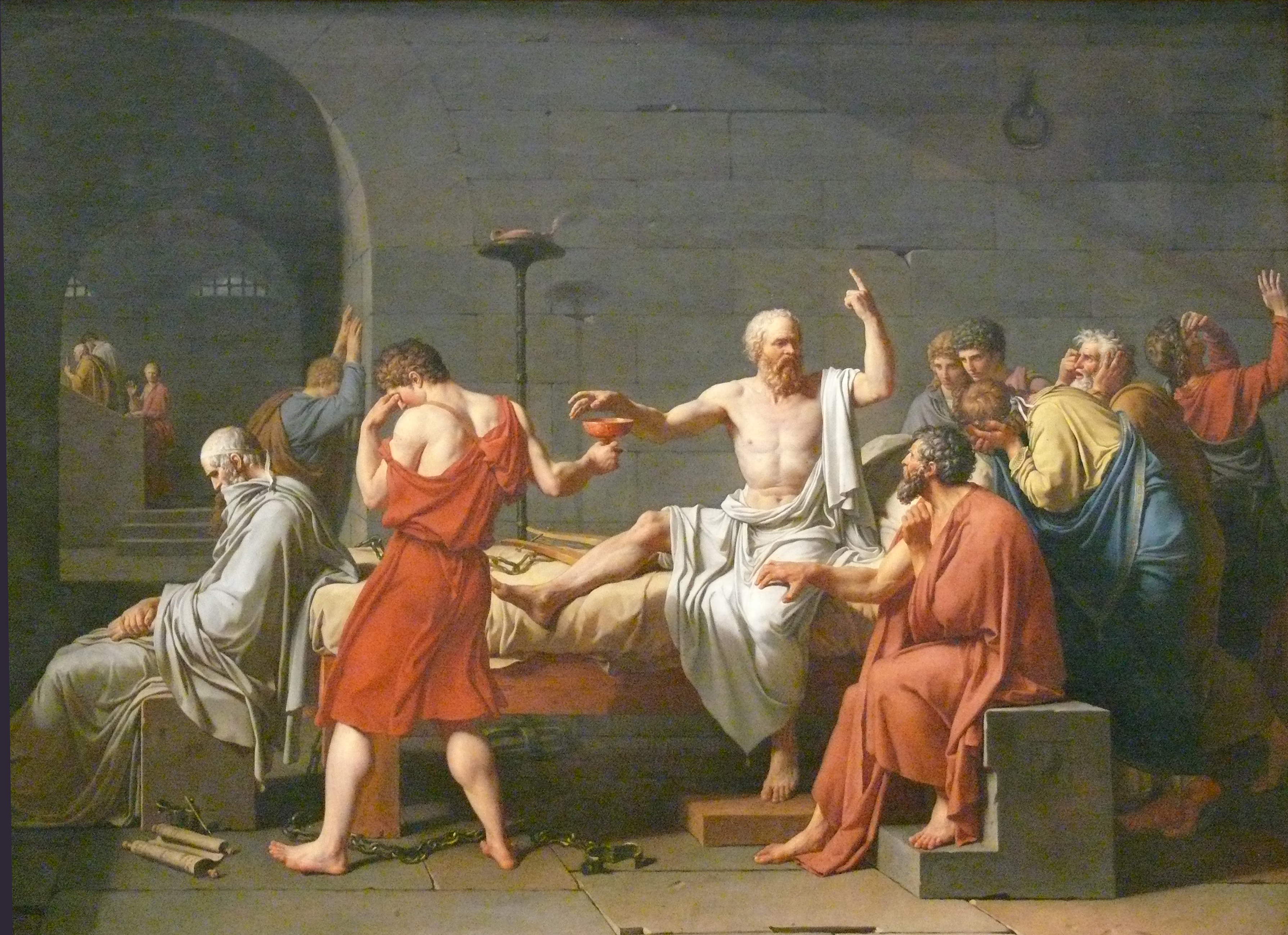 Jacques Louis David (1748–1825), The Death of Socrates in the Metropolitan Museum of Art, New York, NY. 1787 Oil on canvas 129.5 x 196.2 cm Catharine Lorillard Wolfe Collection, Wolfe Fund, 1931 Accession Number: 31.45